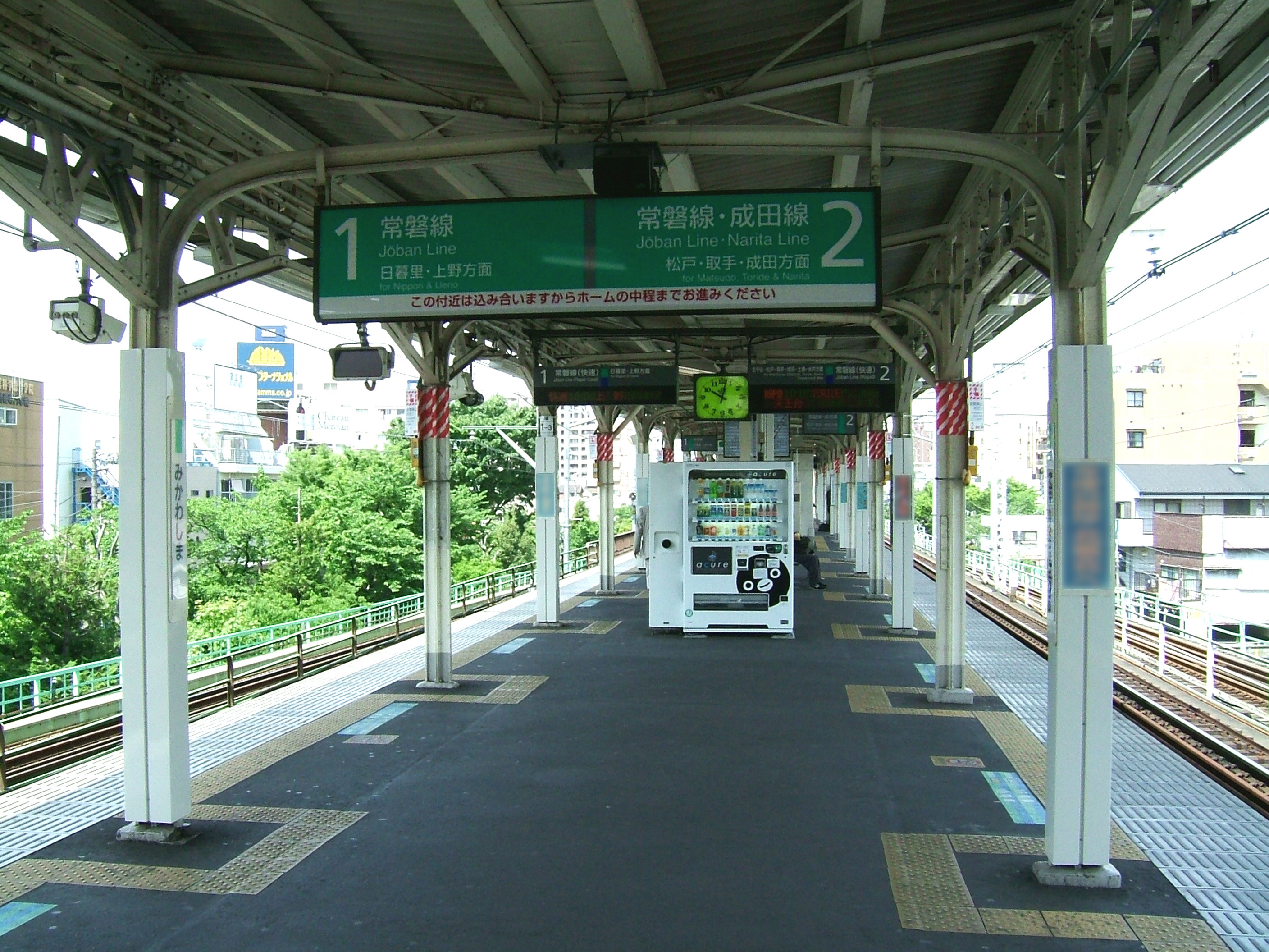 Mikawashima Station platform (East Japan Railway Jōban Line)